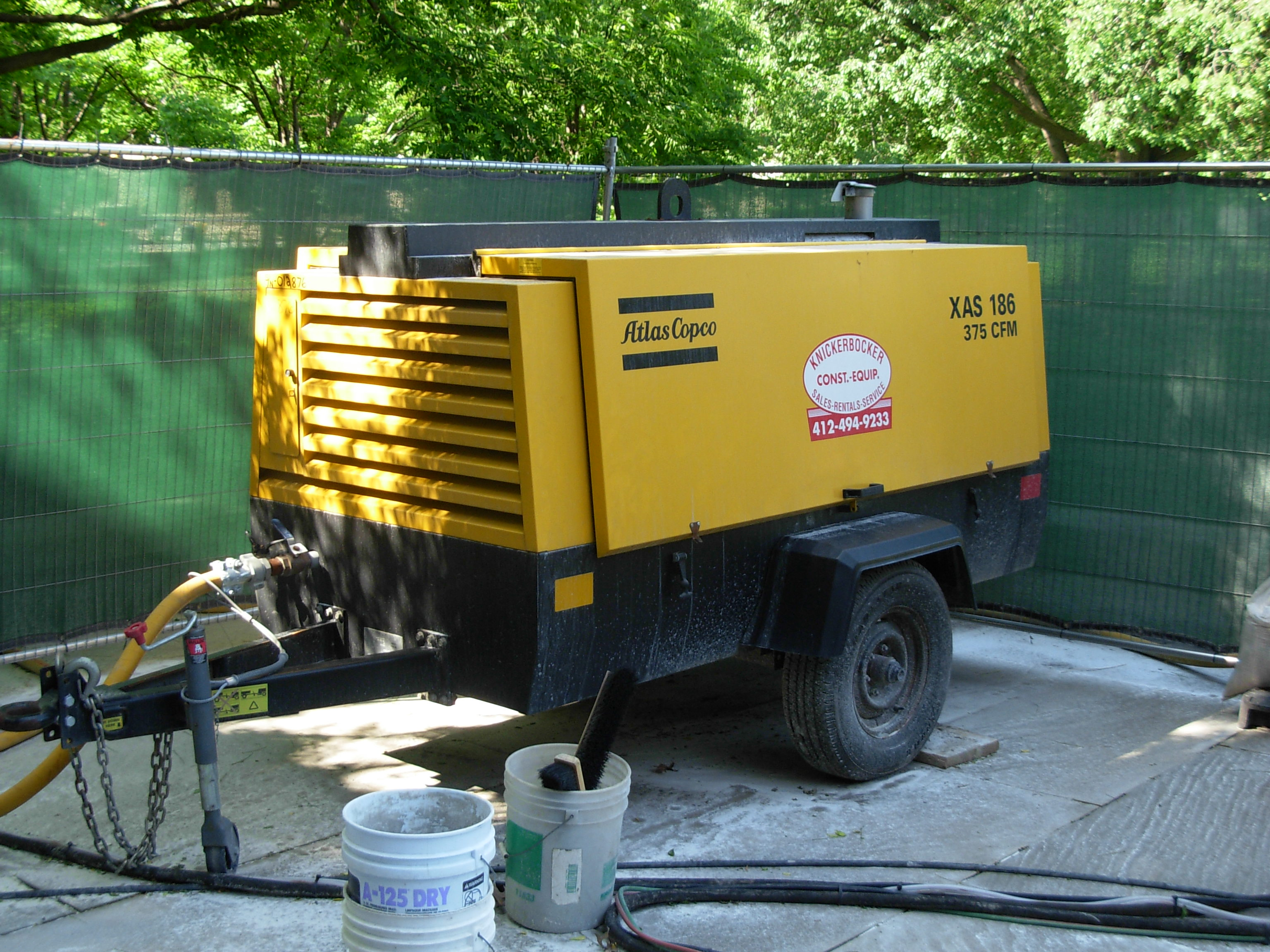 Building machines at tool at Cathedral of Learning, May-June 2007.